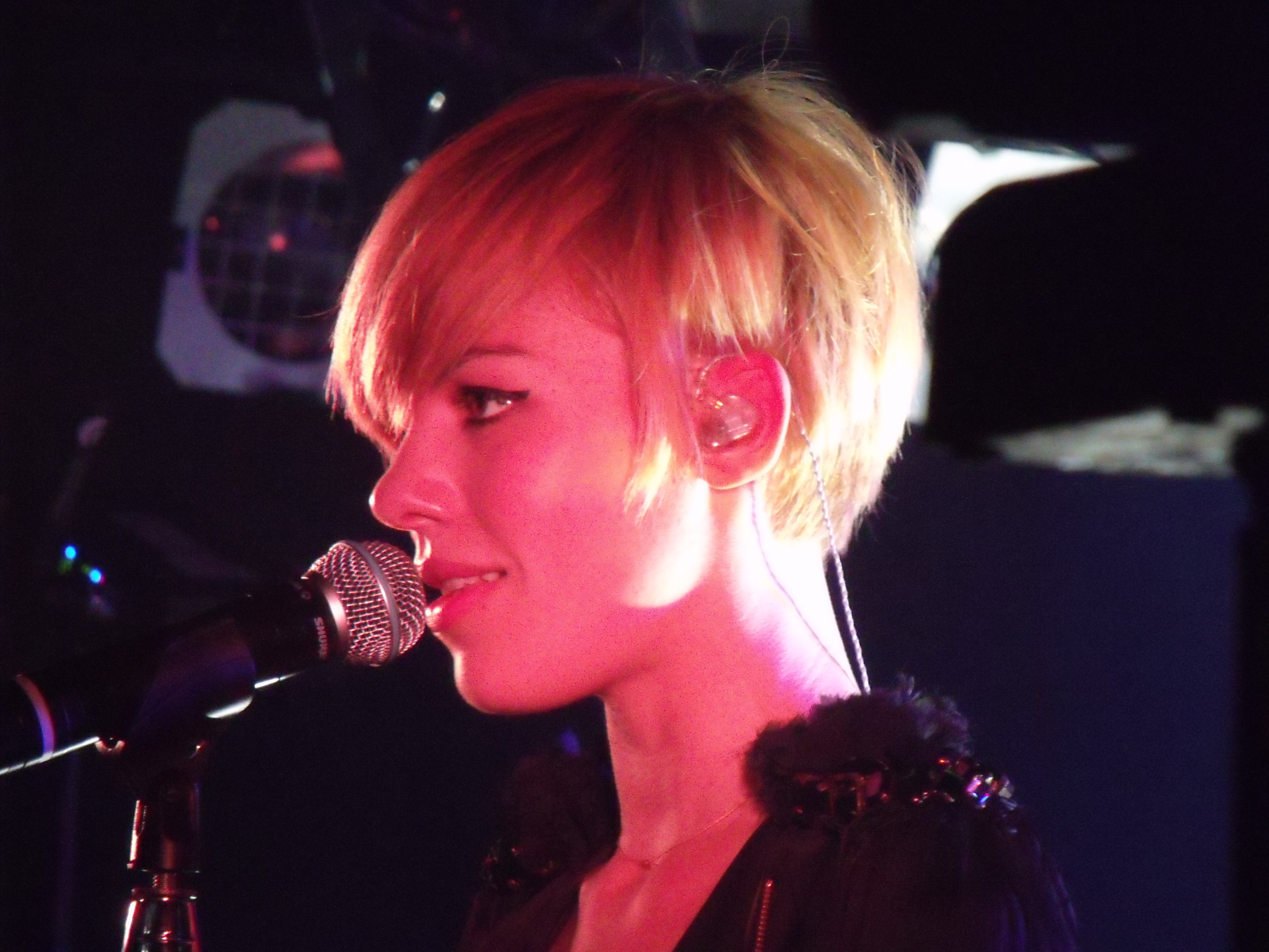 Frida Gold in Bremen